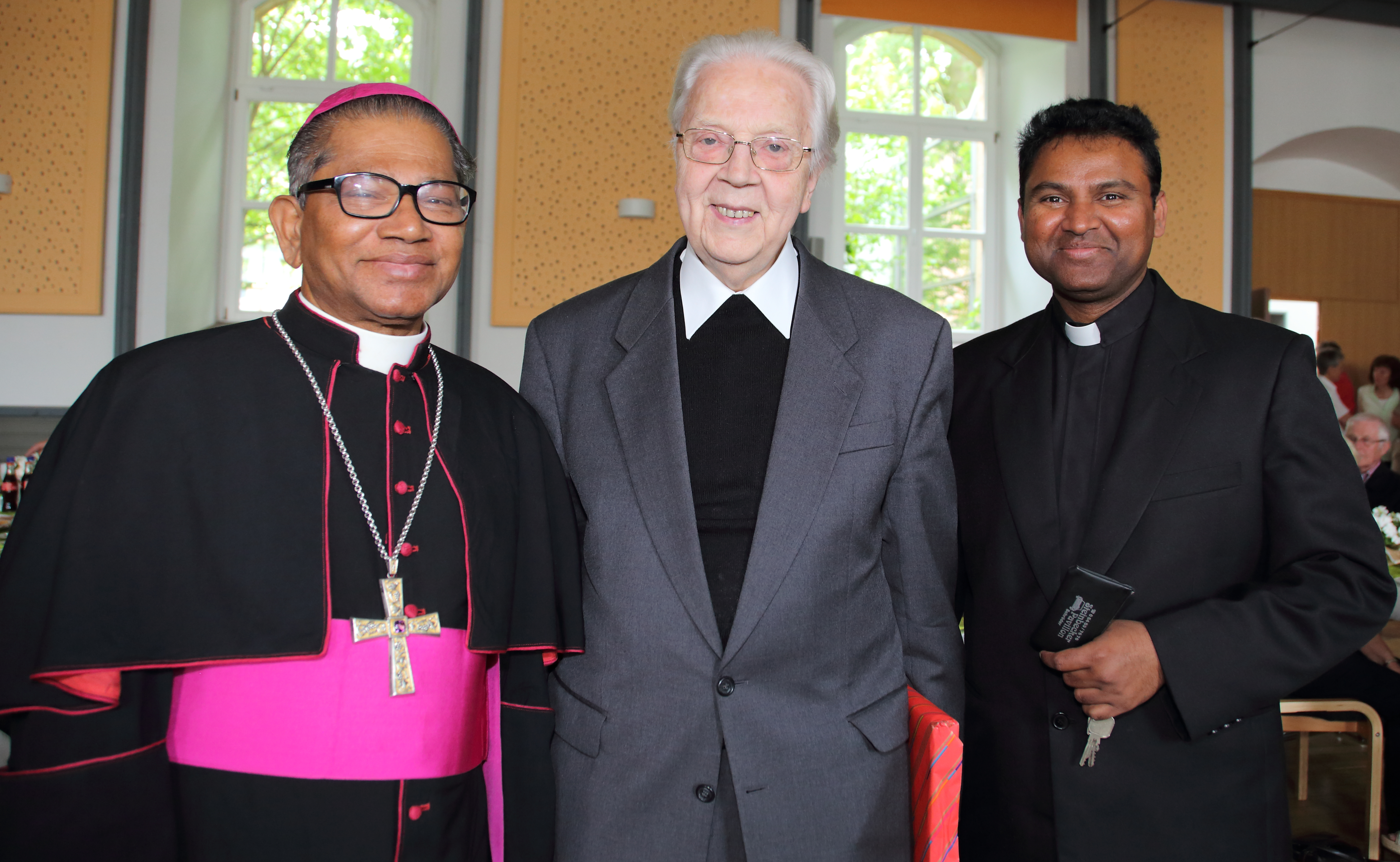 Reception hold on the occasion of the 85th birthday of Father Werner Heukamp and his 20 years of serving in Recke at the Dio-Jugendheim in Recke, Kreis Steinfurt, North Rhine-Westphalia, Germany. Here is Father Werner Heukamp (middle) seen with guest of honour Archbishop Thumma Bala (Archbishop of Hyderabad, India), and Father Gnana Prakasham Chinnabathini (right). Archbishop Thumma Bala then visited Father Gnana Prakasham Chinnabathini, one of the priests of his Diocese, who at the time served in the St Dionysius Parish Recke.